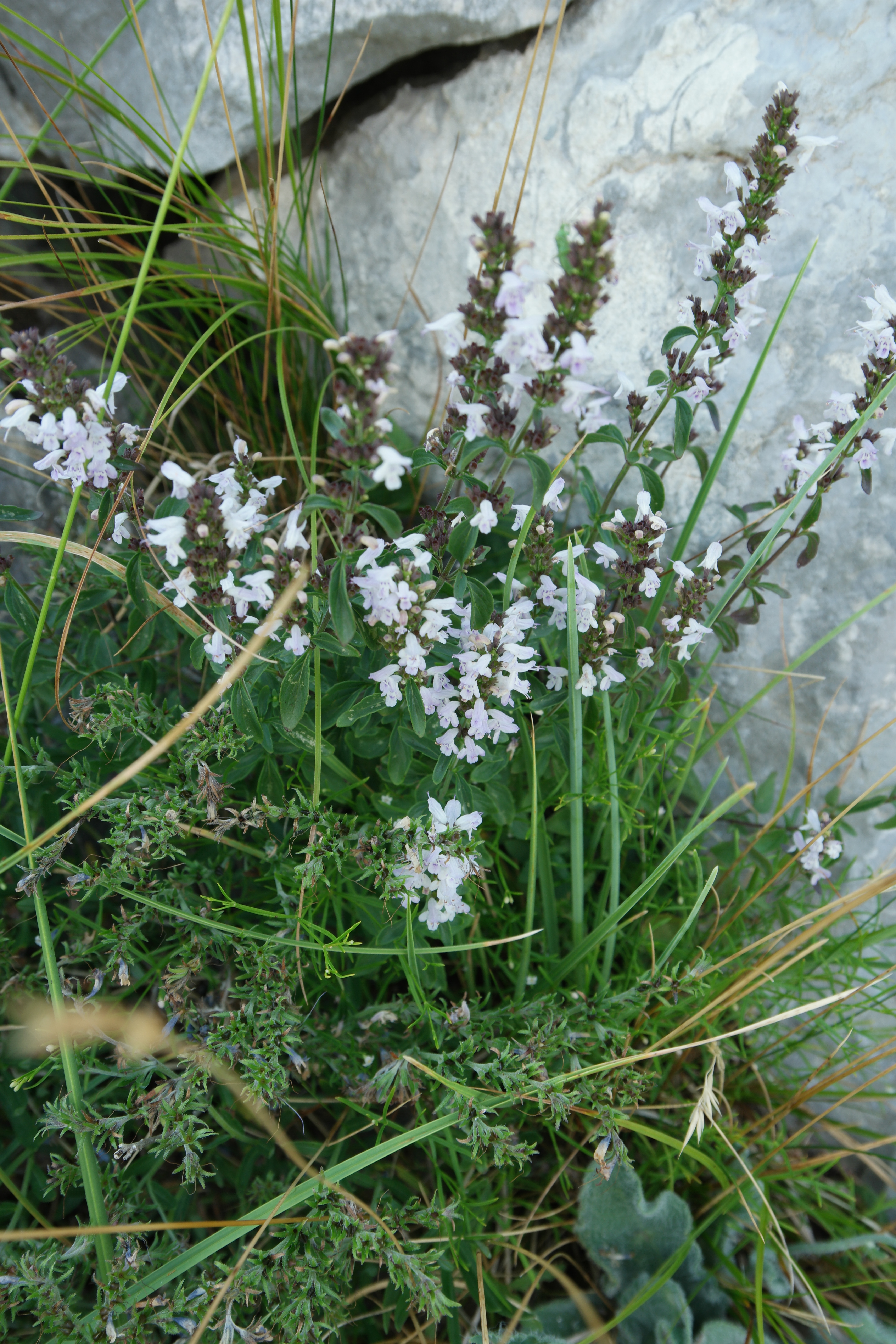 Clinopodium thymifolium, Mt Orjen, Opaljika Bijela gora Montenegro